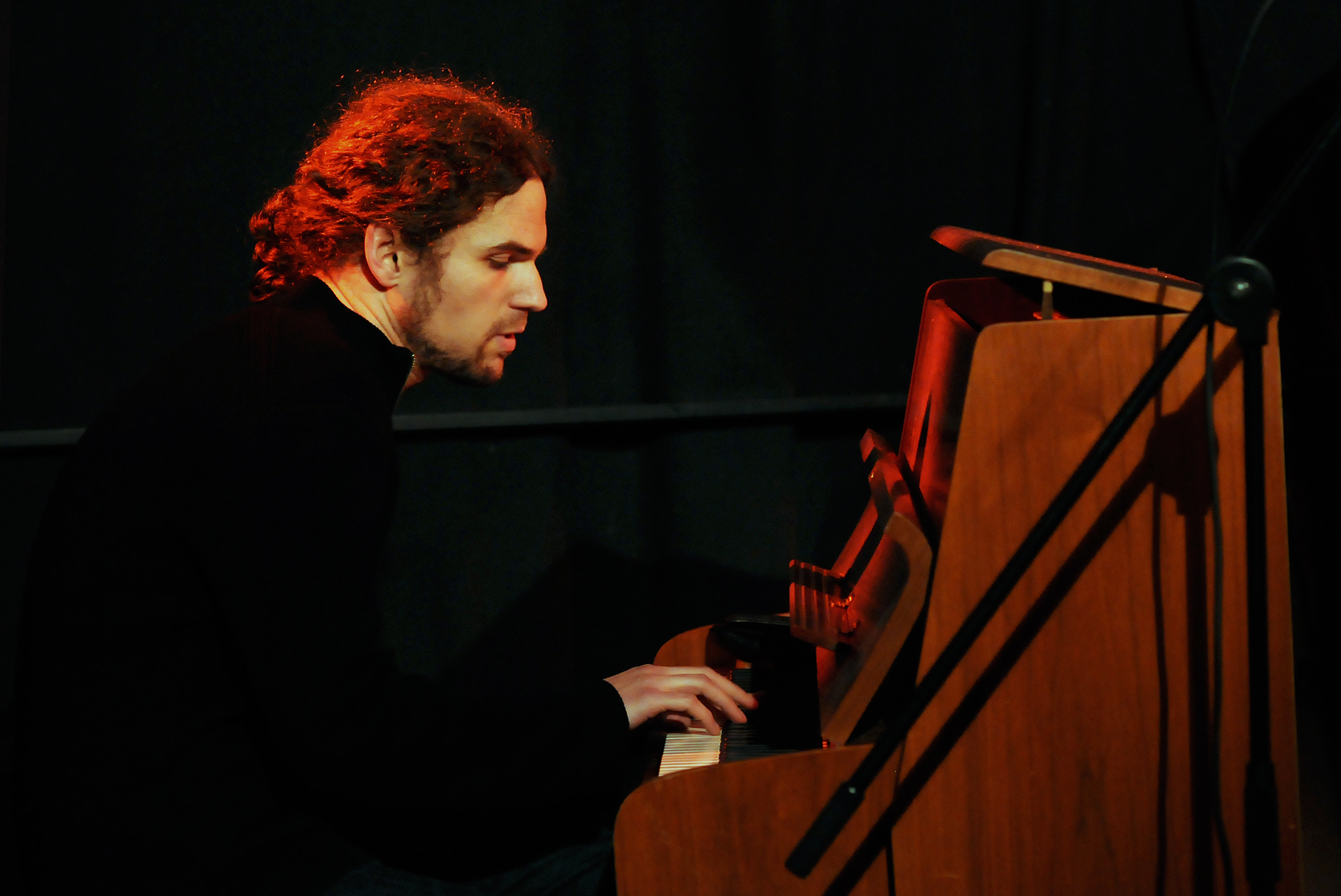 Rainer Boehm in concert of Niels Klein-Rainer-Boehm Quartett at ARTheater Cologne, Germany, Jan 10th, 2012